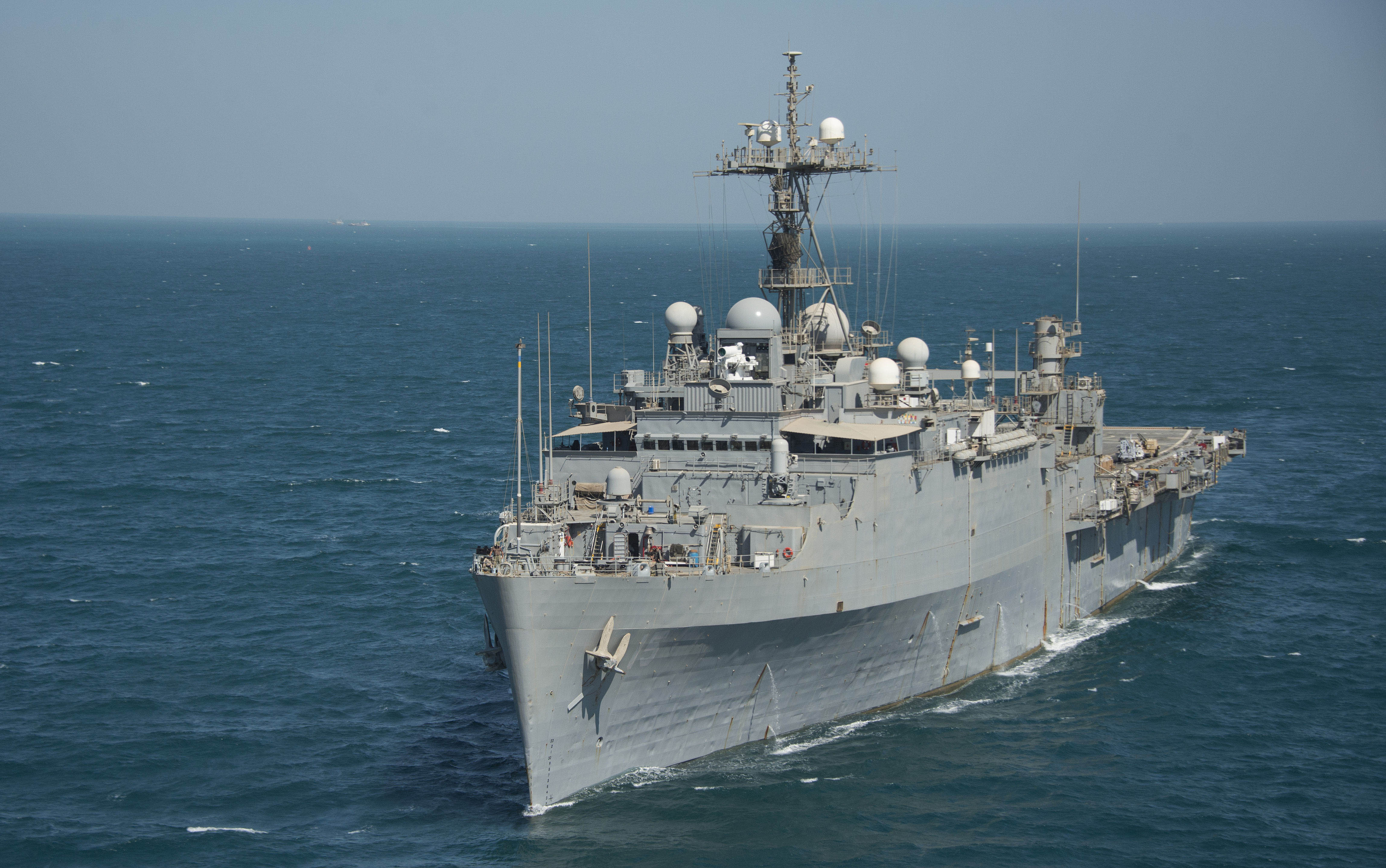 The U.S. Navy afloat forward staging base (interim) USS Ponce (AFSB(I)-15) transits the Arabian Gulf. Ponce is equipped with the Laser Weapon System (LaWS), a technology demonstrator built by Naval Sea Systems Command from commercial fiber solid-state lasers. The system utilizes combination methods developed at the Naval Research Laboratory to successfully shoot down a target. LaWS can be directed onto targets from the radar track obtained from an MK 15 Phalanx Close-In Weapon System or other targeting source. This capability provides ships with a method to easily defeat small boat threats and aerial targets without using bullets.